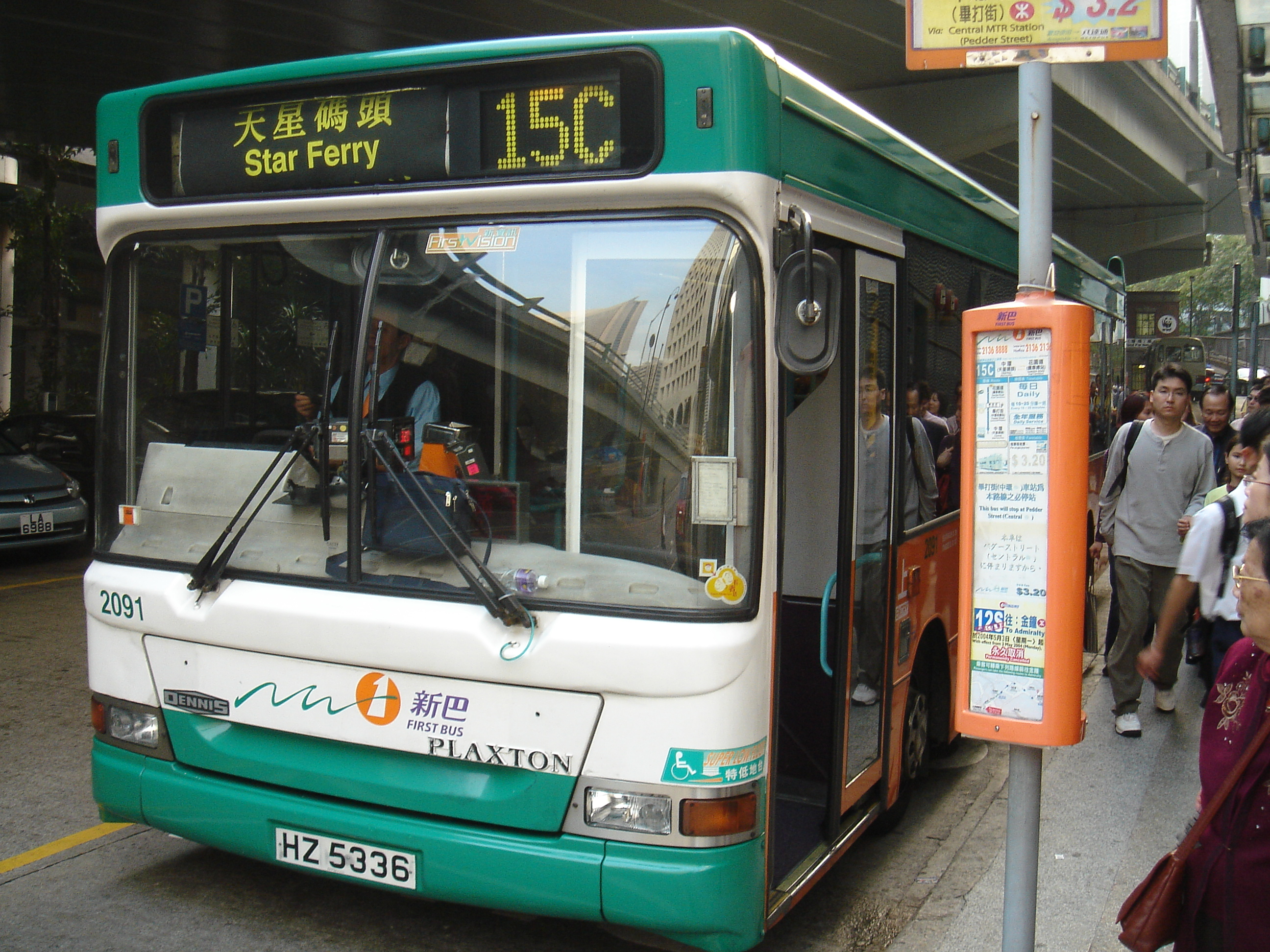 Dennis Dart SLF Plaxton Pointer, owned by New World First Bus of Hong Kong.